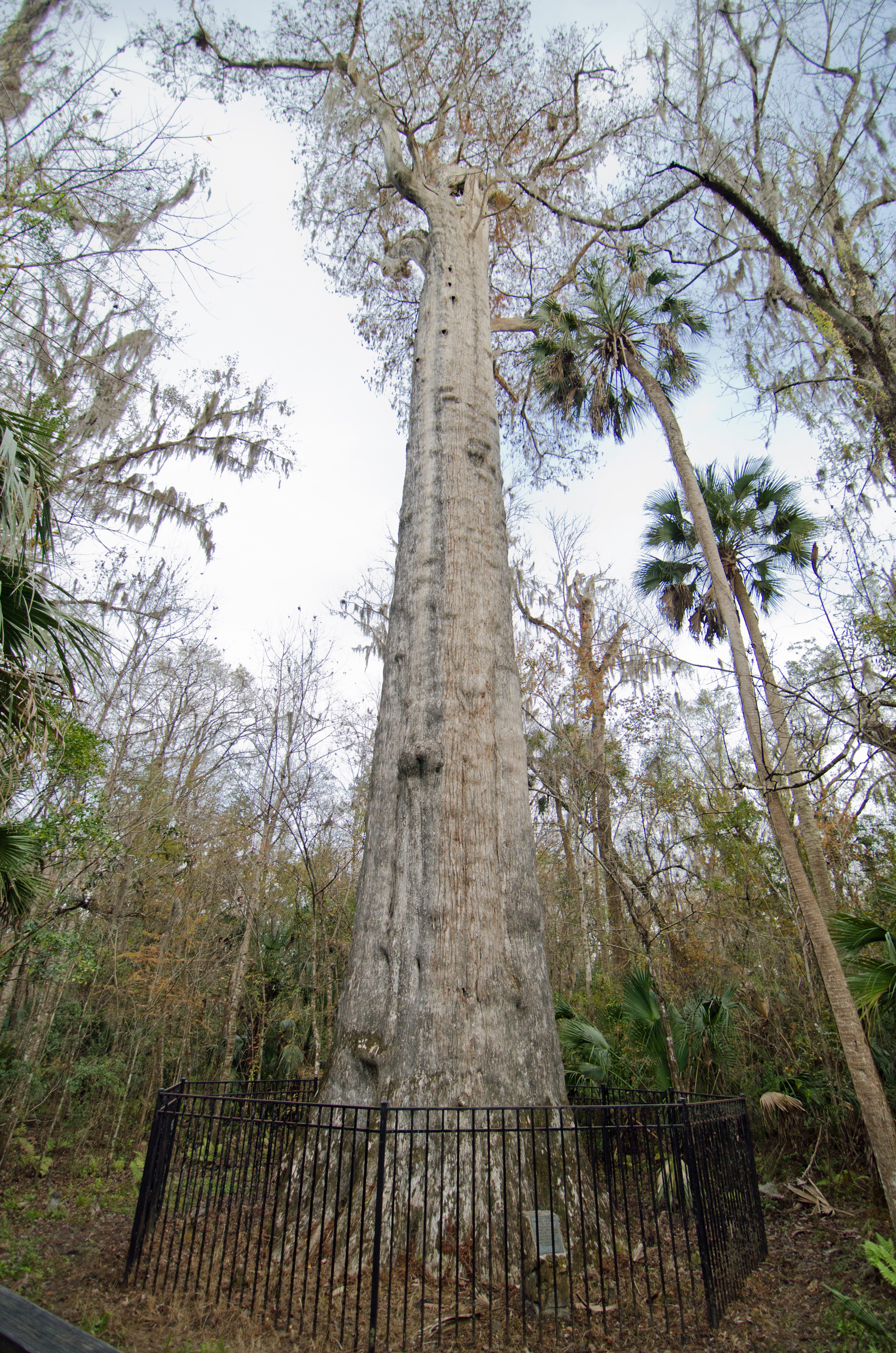 "The Senator", located in Big Tree Park, Longwood, Florida. The photo was taken 36 hours before "The Senator" was destroyed by fire. It had been the biggest and oldest pond cypress tree in the world.